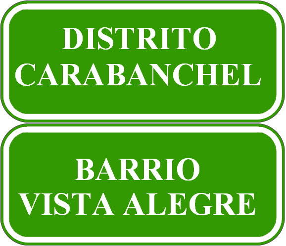 IndicadorBarrioVistaAlegre